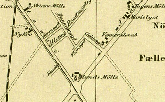 Map detail of Outer Nørrebro in Copenhagen, Denmark. Nørrebros Eunddel is seen in the bottom of the picture.